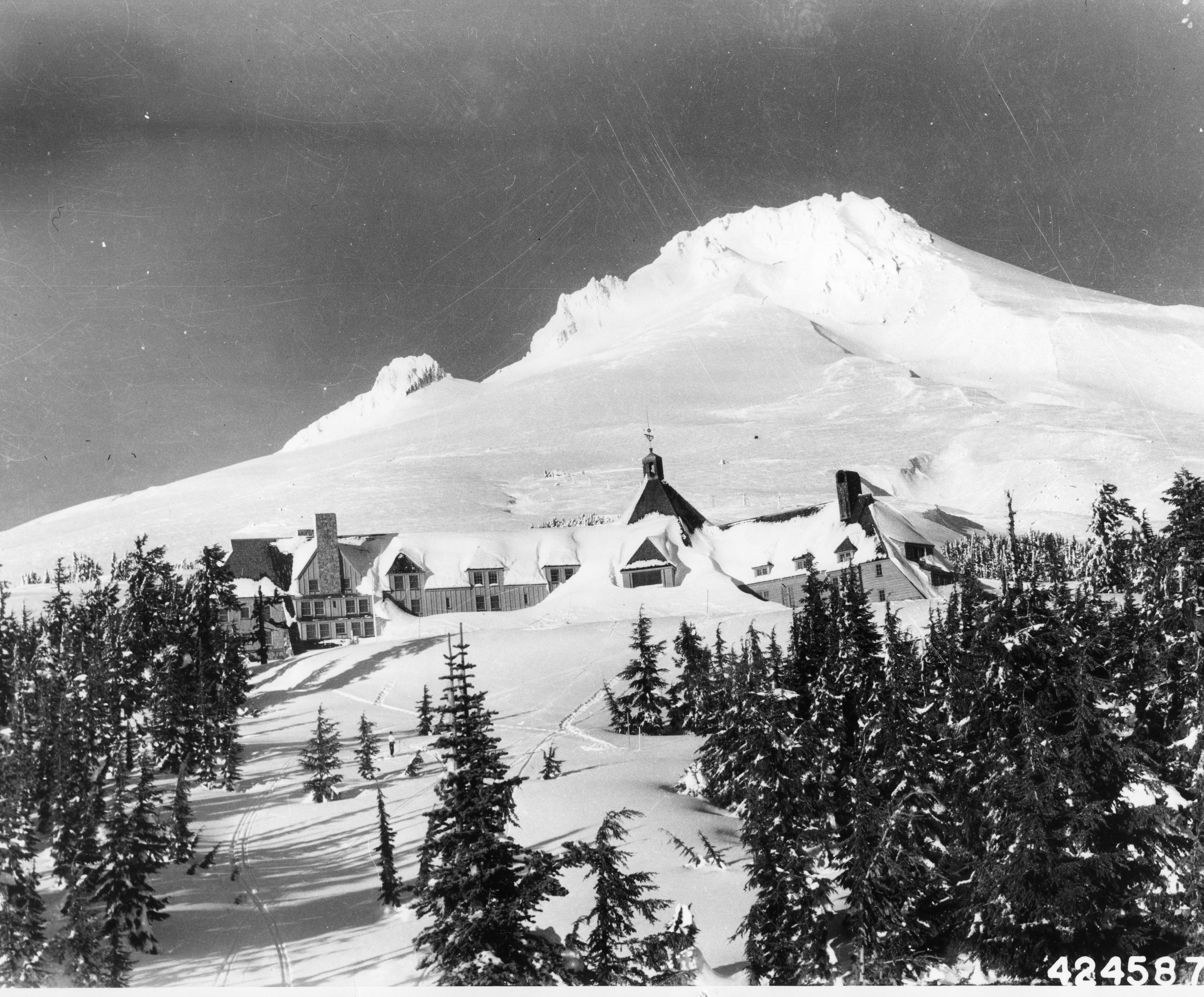 Creator: U.S. Forest Service; Henderson, George Image Title: Mt. Hood and Timberline Lodge Date.Original: 1943-00-00 Description/Notes: Mt. Hood and Timberline Lodge are shown under a blanket of snow during the winter of 1942-1943. The lodge was closed because of war conditions. USFS photo #424587 by George Henderson (not an official USFS photographer) Original Form: Gelatin silver prints Original Collection: Gerald W. Williams Collection Collection series: Civilian Conservation Corps album Item Number: WilliamsG_CCC Timberline Lodge Restrictions: Permission to use must be obtained from the OSU Archives. Transmission Data: Master scanned with Epson 1640XL scanner at 600 dpi., 8 bit gray scale. Image manipulated with Adobe Elements 4.0. Date.Digital: 2008-03-13 Contributing.Institution: Oregon State University Libraries Click here for further information or a high resolution copy of this image. Click here for more information on the Gerald W. Williams collection. Click here to view Oregon State University's other digital collections.